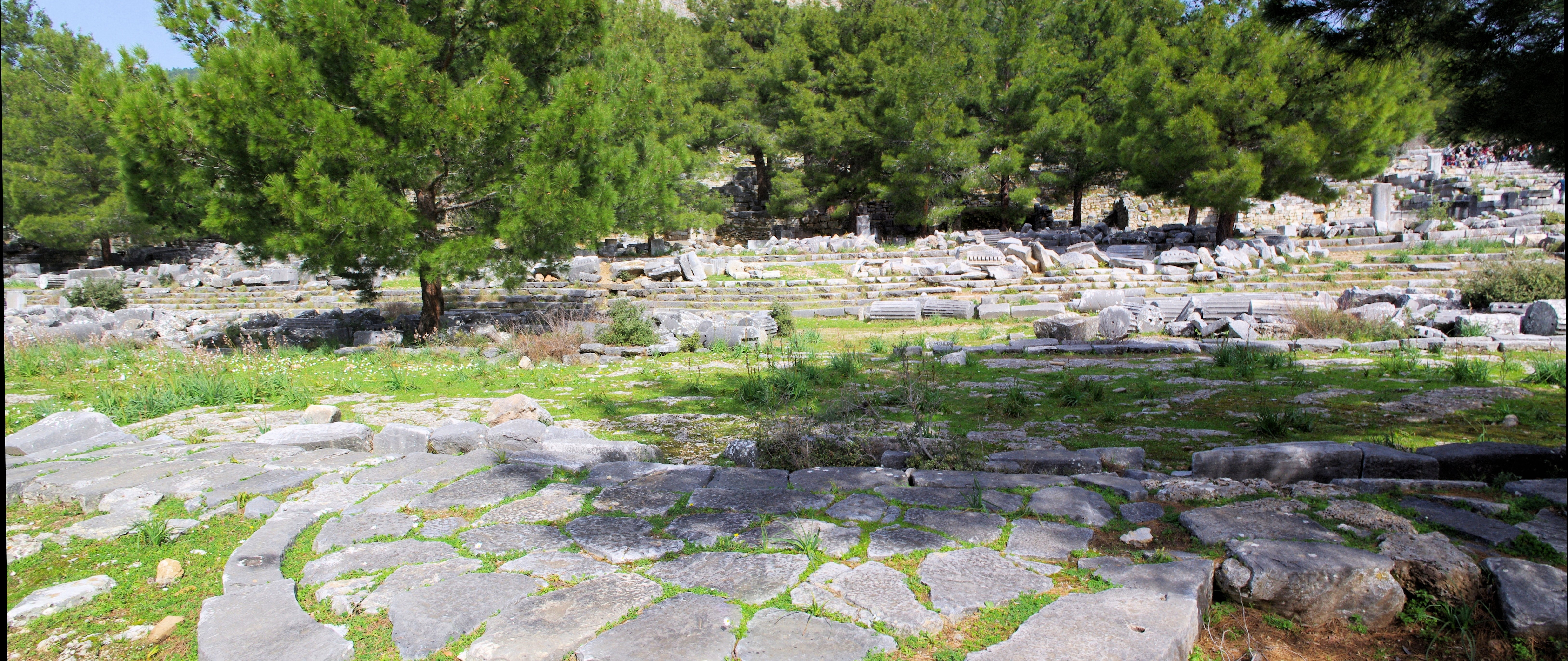 Agora of Priene. Priene was built as a coastal port in the 11th century BC. By the 4th century BC, however, the magnificent deep-water port had already silted up so badly that the city had to be relocated to avoid the "bad miasma" (unhealthy air) that led to the wasting sickness that we now know as mosquito-borne malaria. The new (only 2,400 years old) location of Priene was constructed on the slopes of the escarpment of Mycale on the order of the Persian-empire satrap, Mausolus (whose fantastic carved marble burial monument gives us the word "Mausoleum"). When Alexander the Great conquered the Persian empire in the latter half of the 4th century BC, he continued the work Mausolus had started on the temple of Athena, using the noted architect Pytheos to design the perfect temple for the environment. Here are the remains of the agora, or civic square and market place of ancient Priene. By the time this agora was built in the 4th century BC, Priene was a full democracy, with every (adult, male, free, property-owning male) citizen able to vote on major decision and to elect a city council that took care of the many daily needs of the city, such as fixing the streets or inviting great poets to recite or playwrights to stage performances in the city theater.